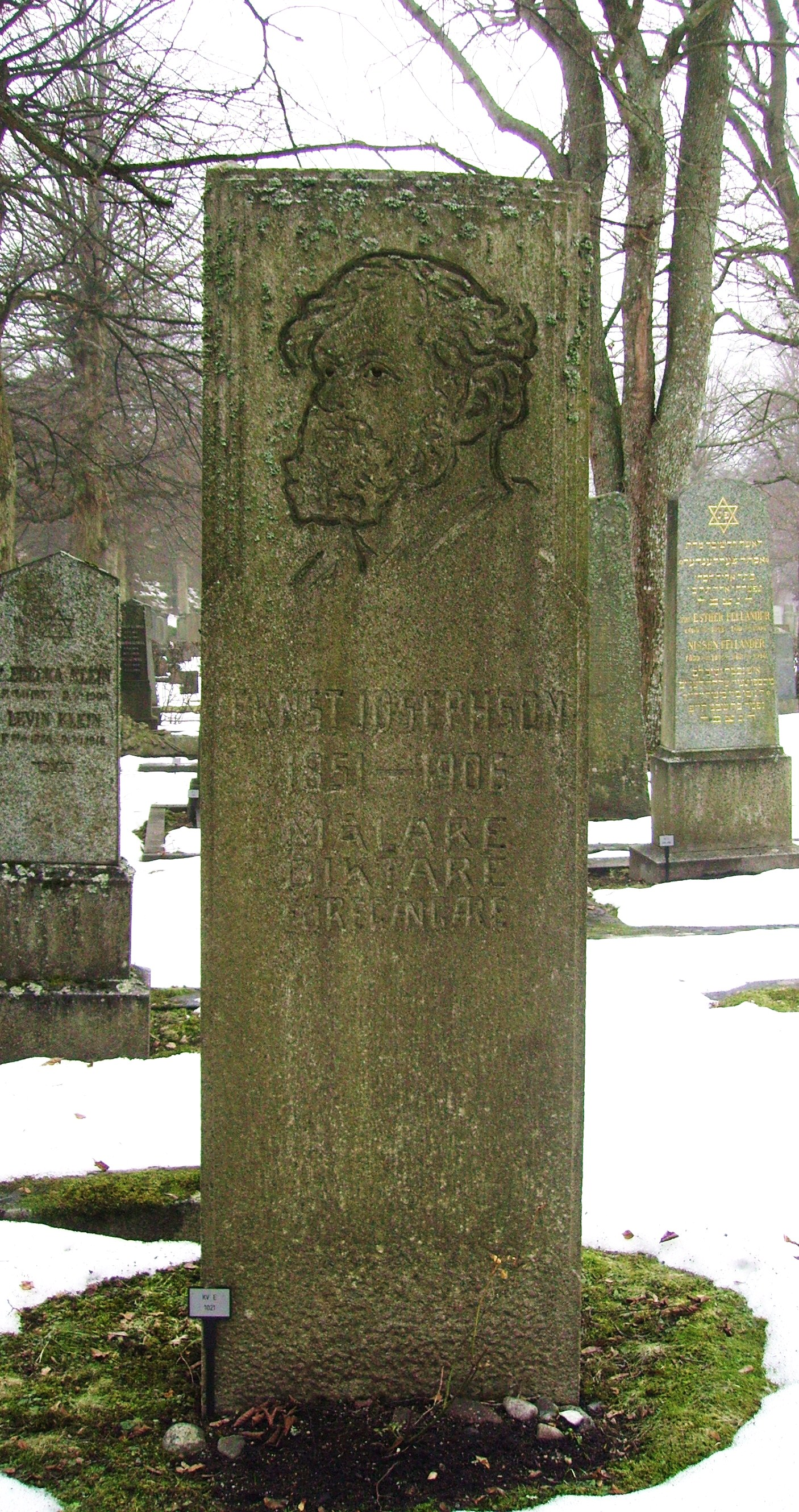 Picture of Ernst Josephson's grave at Judiska norra begravningsplatsen in Solna